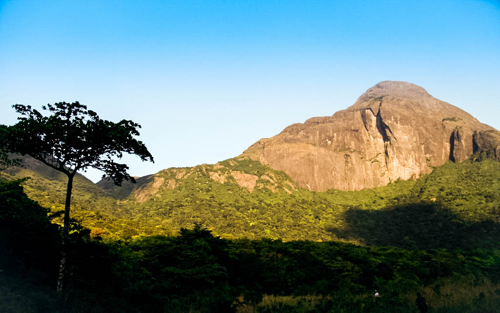 Agasthyakoodam Part of the Sahyadri ranges (Western Ghats) of mountains, Agasthyakoodam, at a height of 1,890 m above sea level, is the second highest peak in Kerala. Teeming with wildlife, the forests of Agasthyakoodam abound in rare medicinal herbs and plants, and brilliantly hued orchids. A bird watcher’s paradise, this legendary mountain is accessible by foot from Kotoor, near Neyyar Dam and also from Bonakkad.